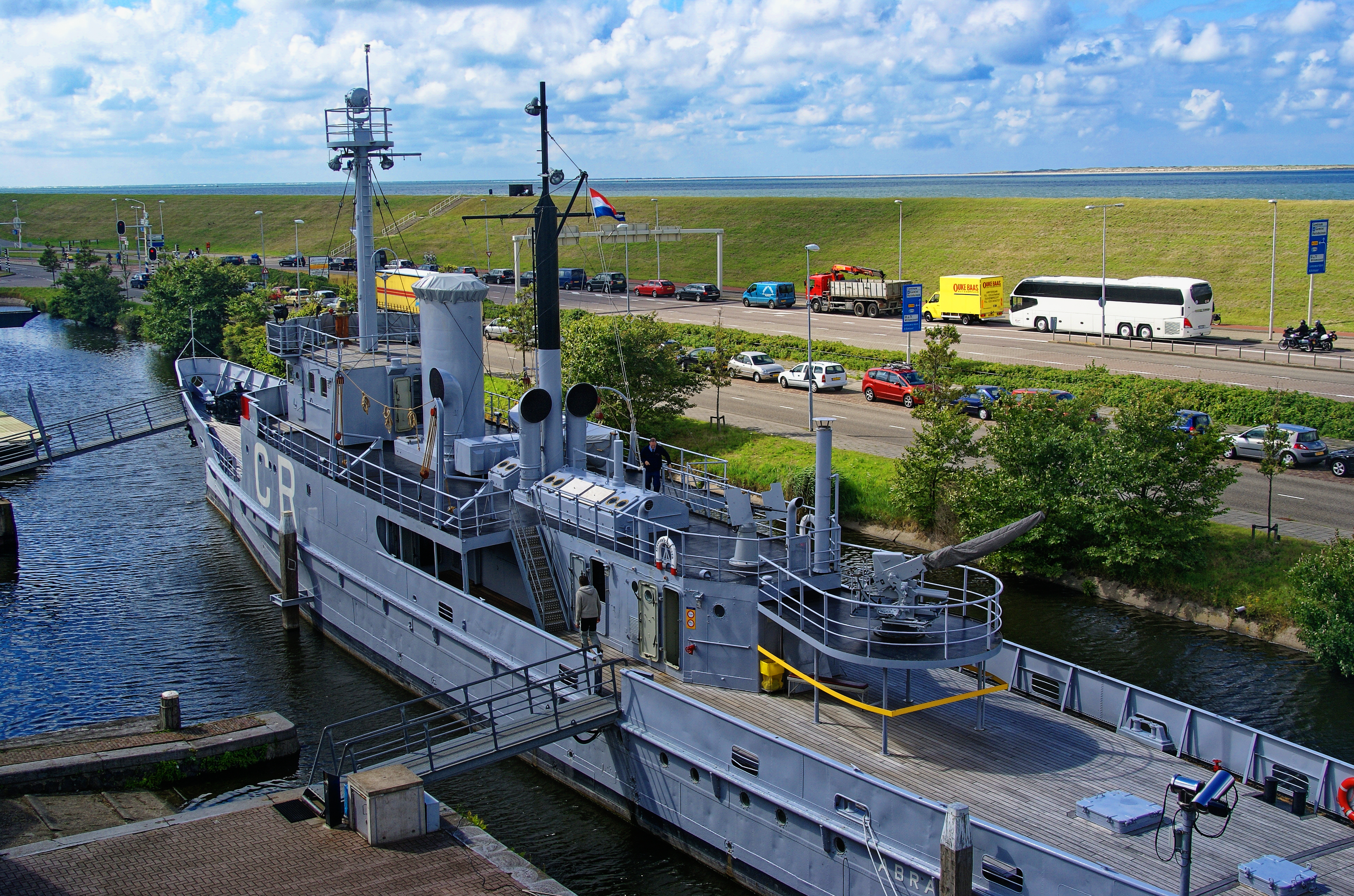 Den Helder - Marinemuseum - View WNW from Submarine on HNLMS Abraham Crijnsen